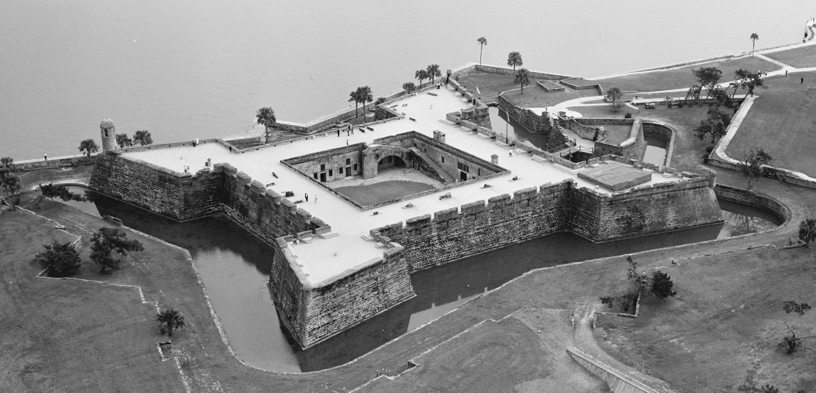 Aerial view from the northwest, showing Castillo and its relation to the town - Castillo de San Marcos, 1 Castillo Drive, Saint Augustine, St. Johns County, Florida, United States. (description This is a cropped version of